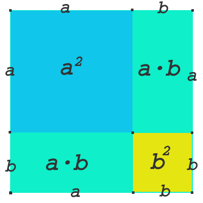 Sketch illustrating Binomial theorem 1 ((a+b)²=a²+2ab+b²)